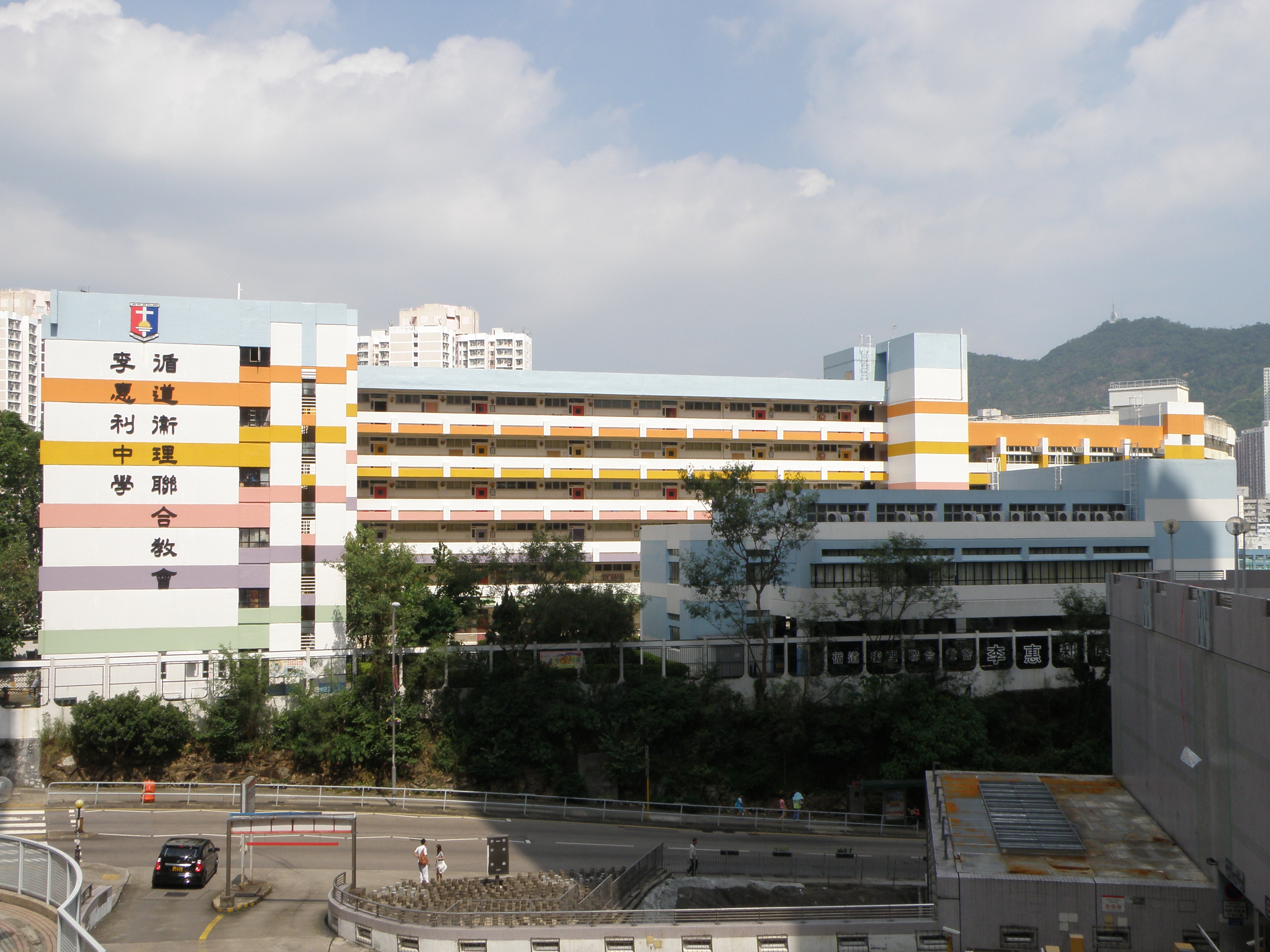 The Methodist Lee Wai Lee College in Kwai Chung, Hong Kong.